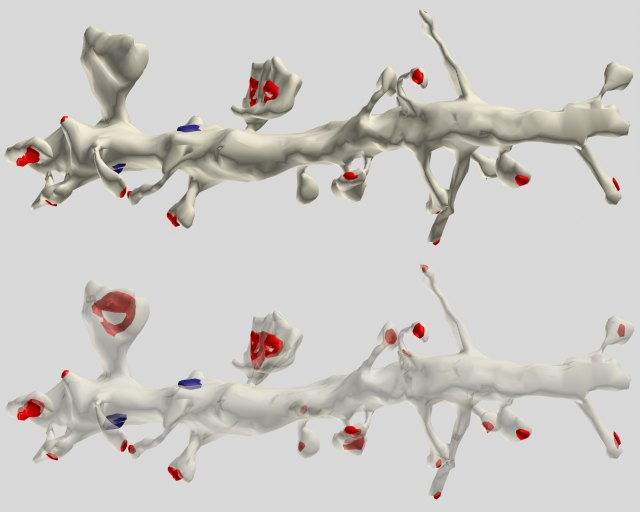 A segment of pyramidal cell dendrite from stratum radiatum (CA1) with thin, stubby, and mushroom-shaped spines. Spine synapses colored in red, stem (or shaft) synapses colored in blue. The dendrite was made transparent in the lower image to enable visualization of all synapses.